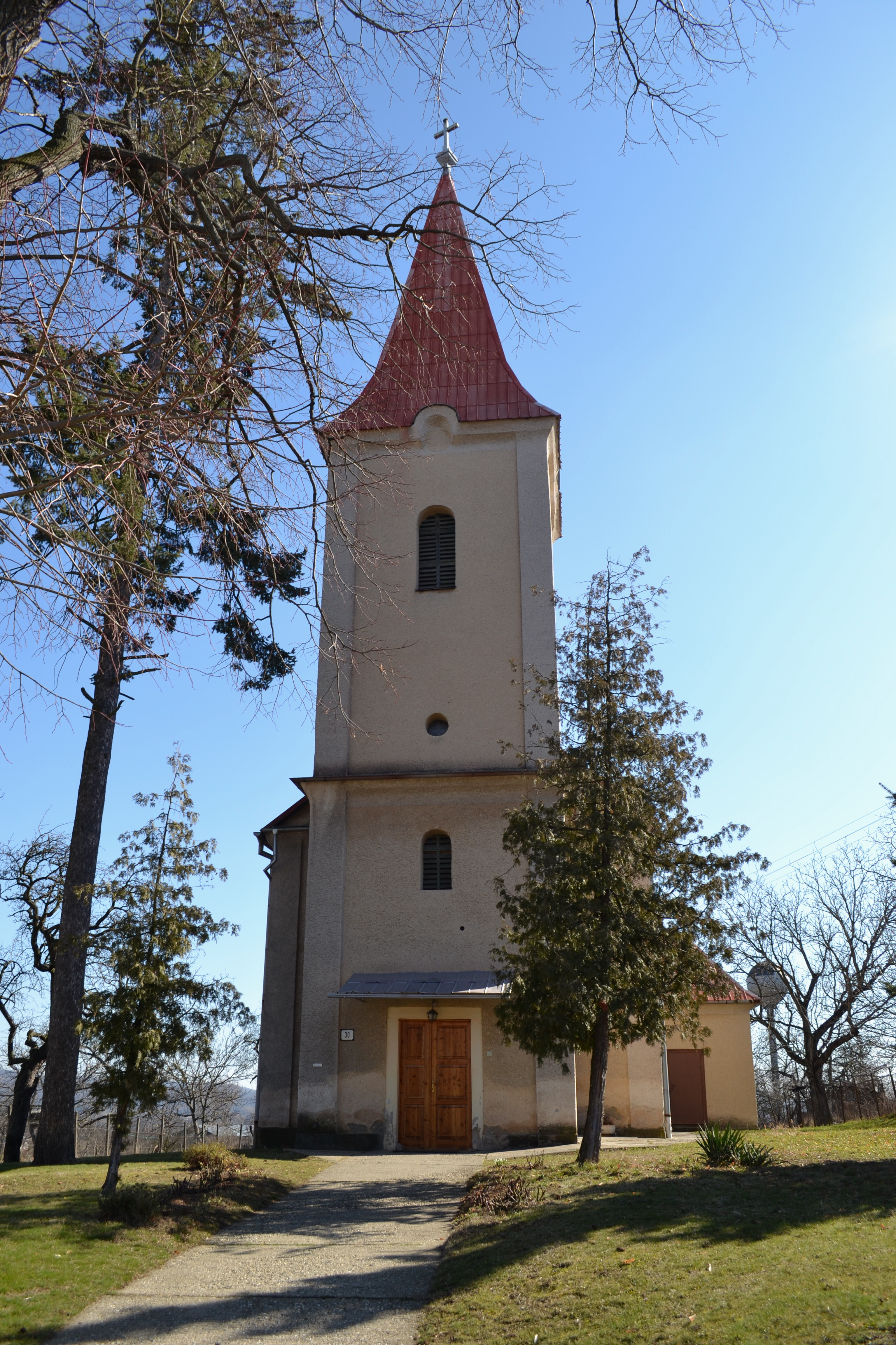 Roman - Catholic church dedicated to St. John the Baptist, built in 1894Slovenčina: Rímsko-katolícky kostol sv. Jána Krstiteľa, postavený v roku 1894